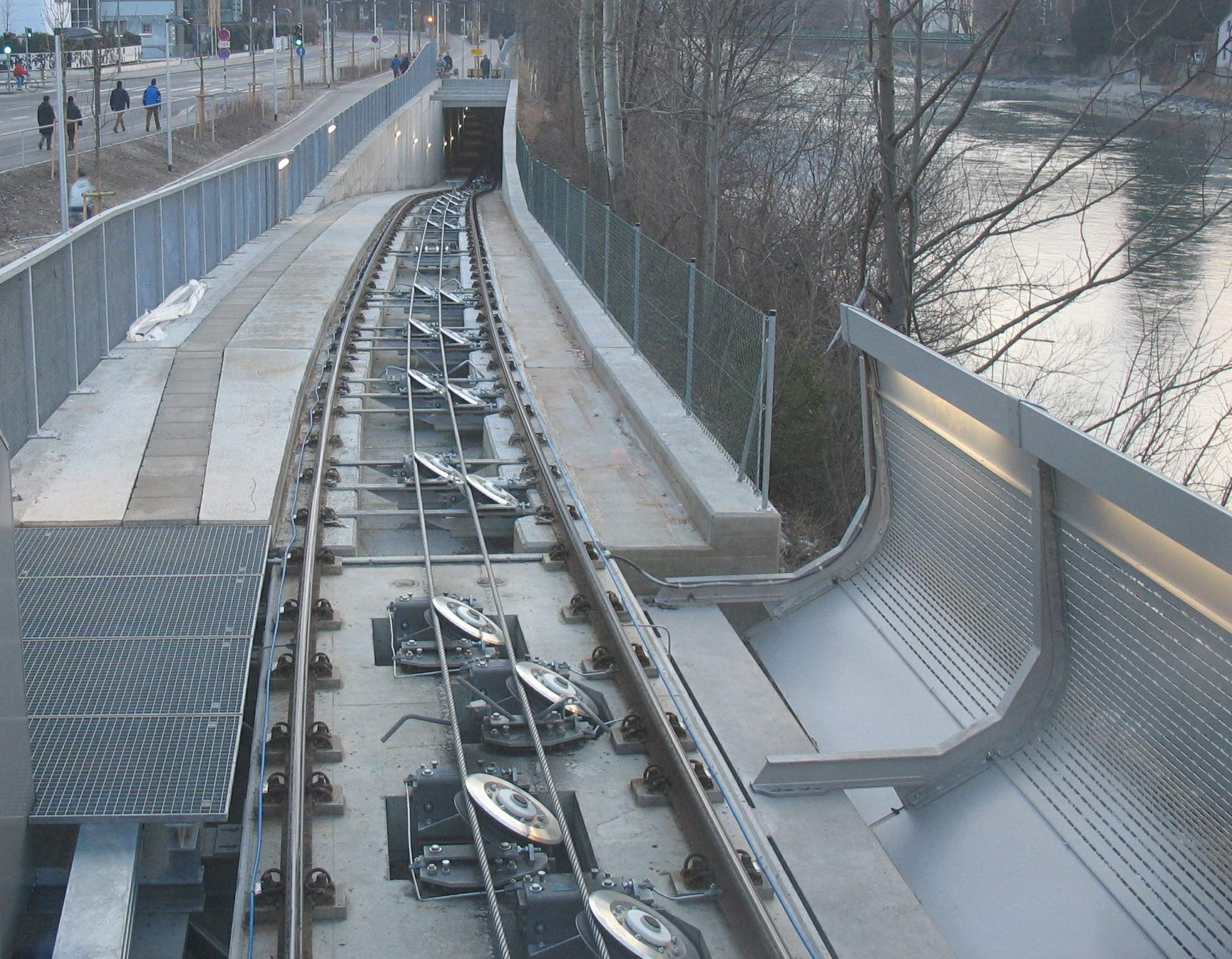 Portal of the tunnel of the Hungerburgbahn, Innsbruck, at the Inn bridge; Dec 23rd, 2007